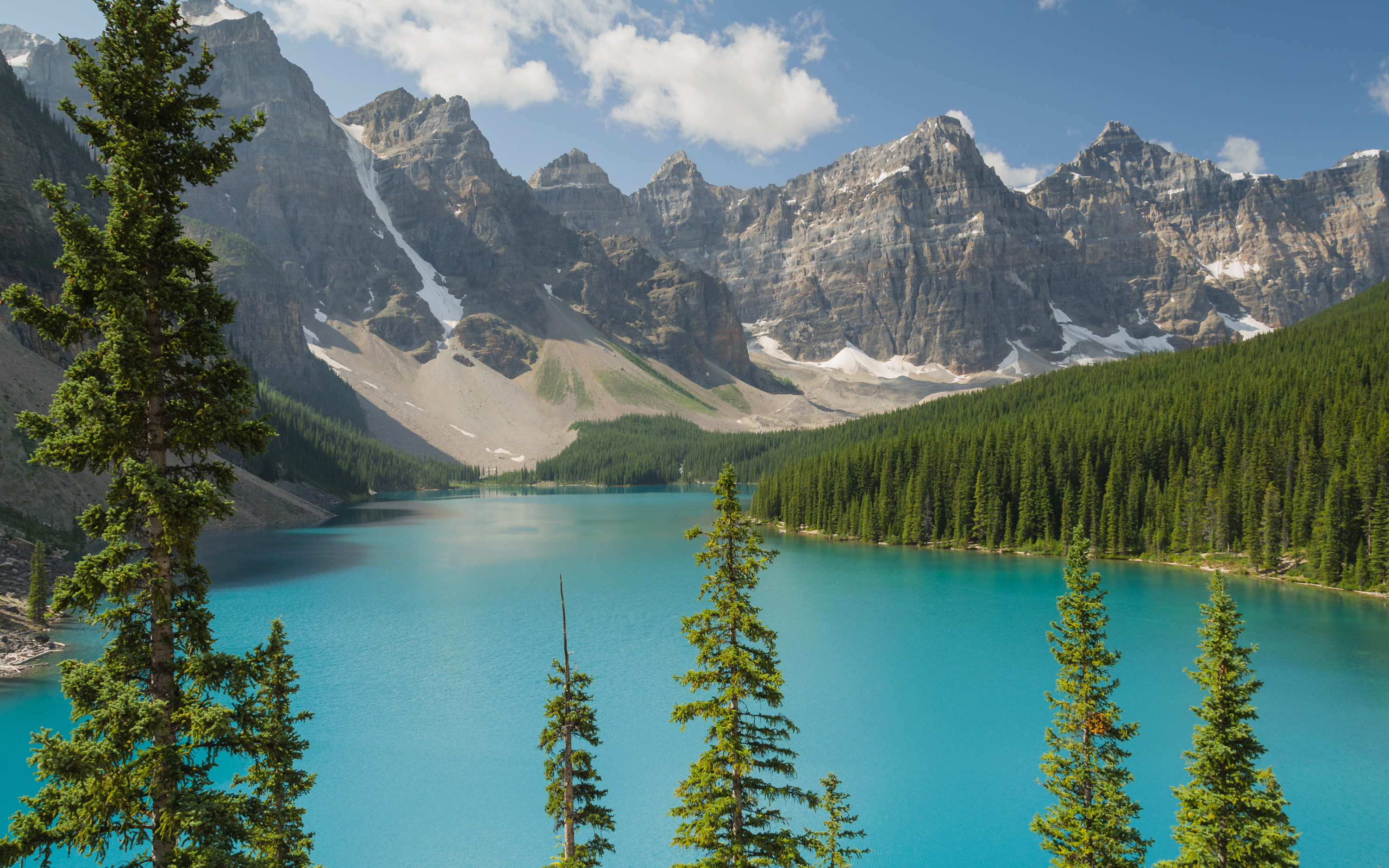 Lake Moraine-Banff National Park